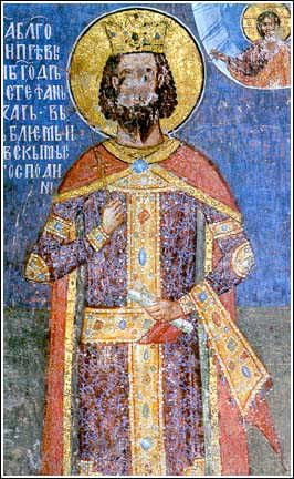 Fresco of Lazar Hrebeljanović in Ljubostinja monastery, near Trstenik, Serbia.